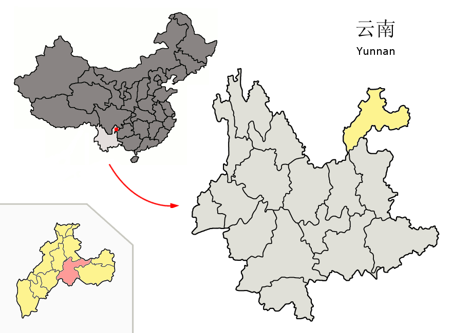 Location of Yiliang County (pink) and Zhaotong Prefecture (yellow) within Yunnan province of China Map drawn in september 2007 using various sources, mainly : Yunnan province administrative regions GIS data: 1:1M, County level, 1990 Yunnan Counties map from Zhaotong Prefecture administrative map from .au